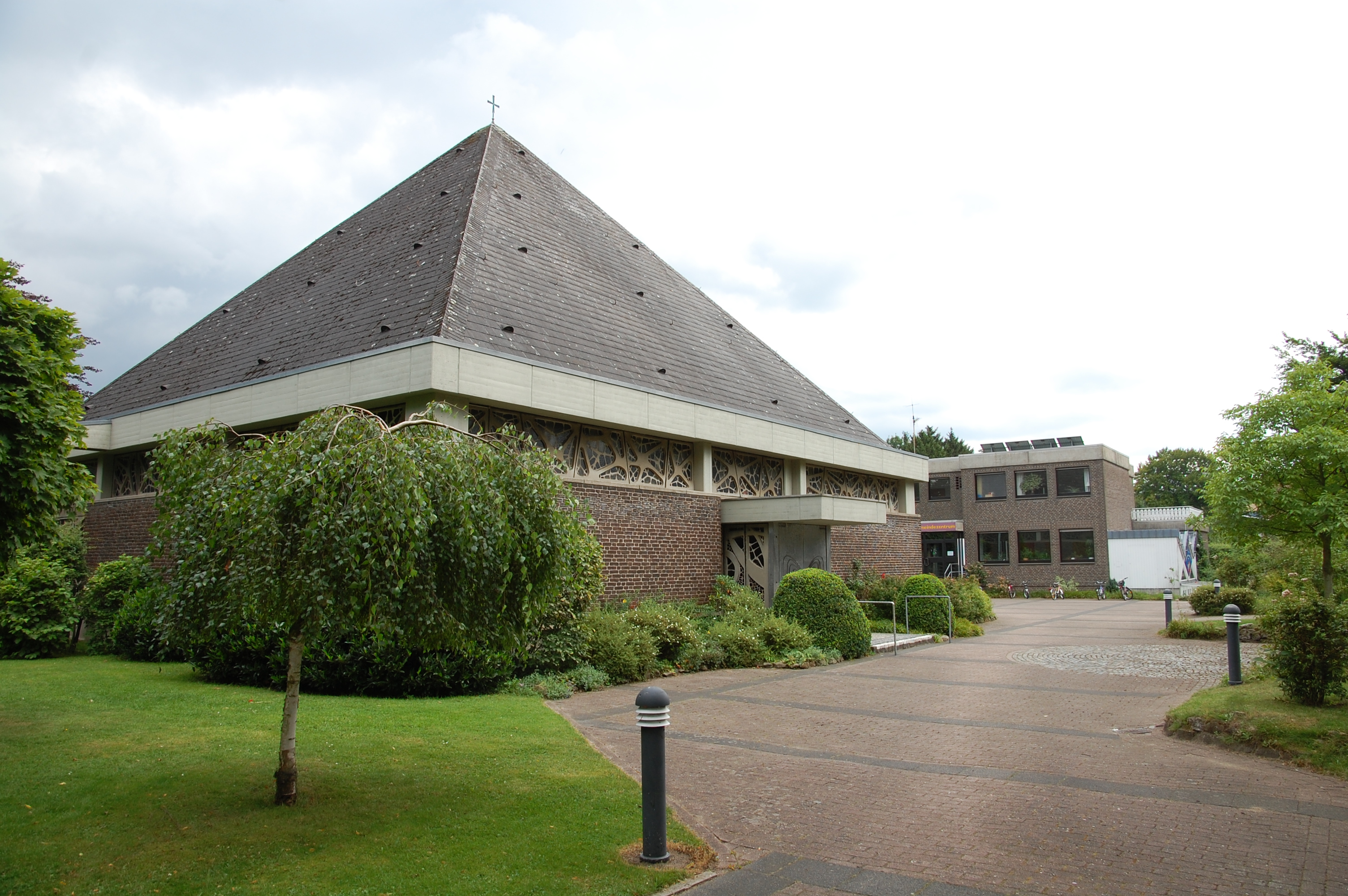 The Church of Christ in Münster-Hiltrup in Germany.